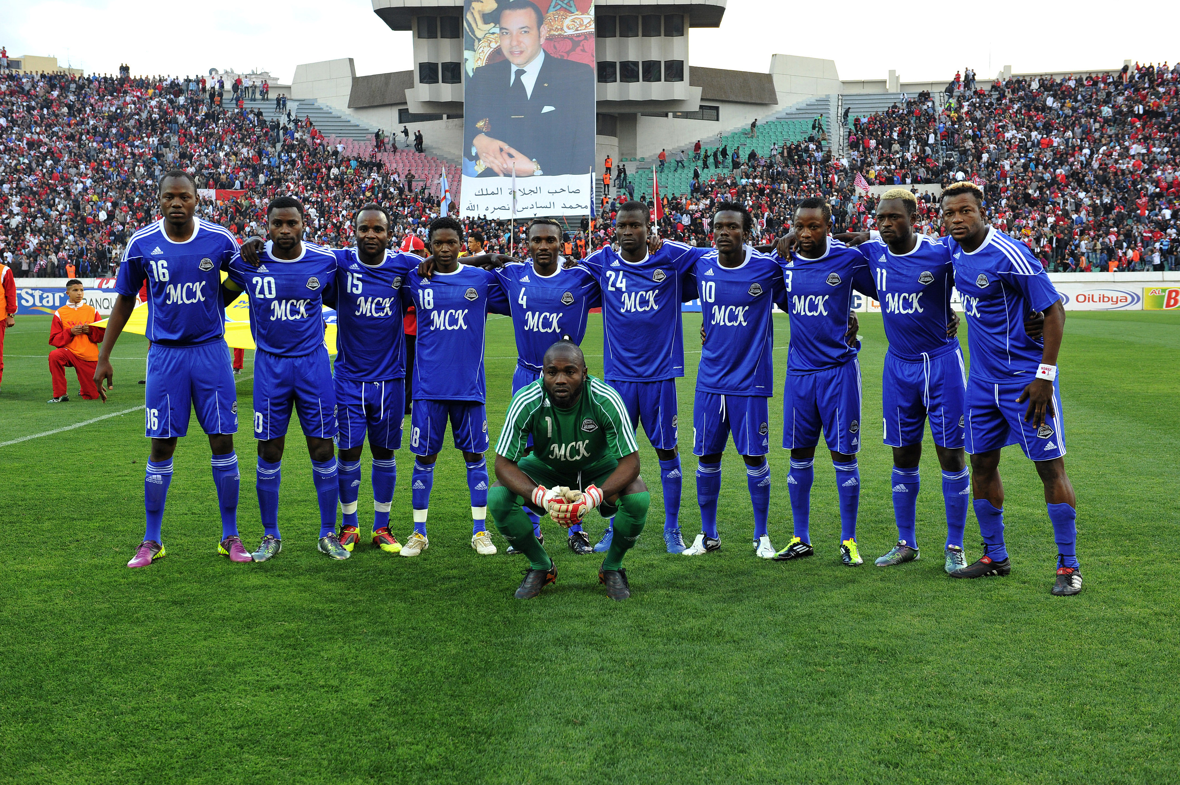 TP MAZEMBE